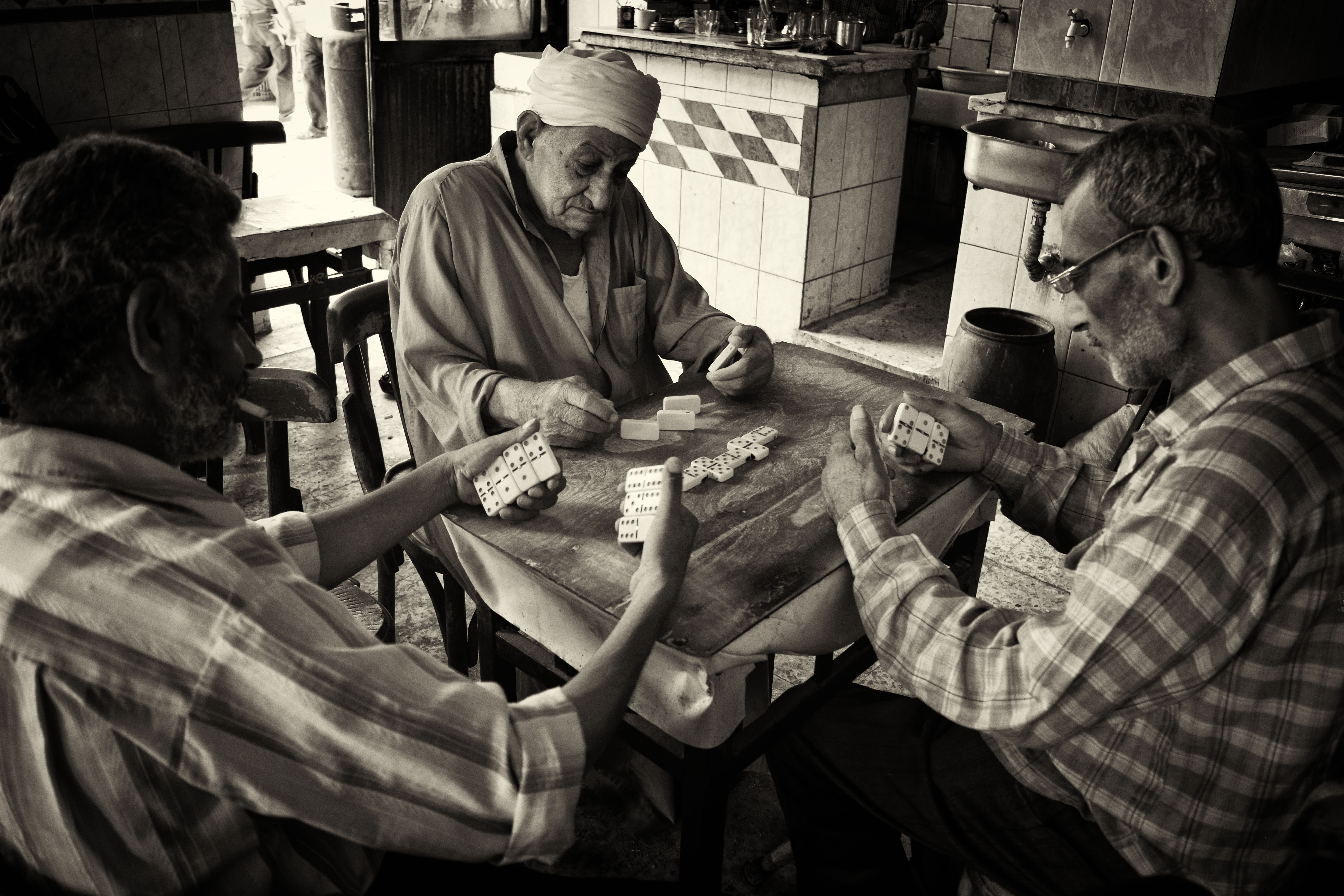 Men playing domino in a caffee مصرى: رجال يلعبون دومينو في قهوه This is an image with the theme "Play" from: Egypt